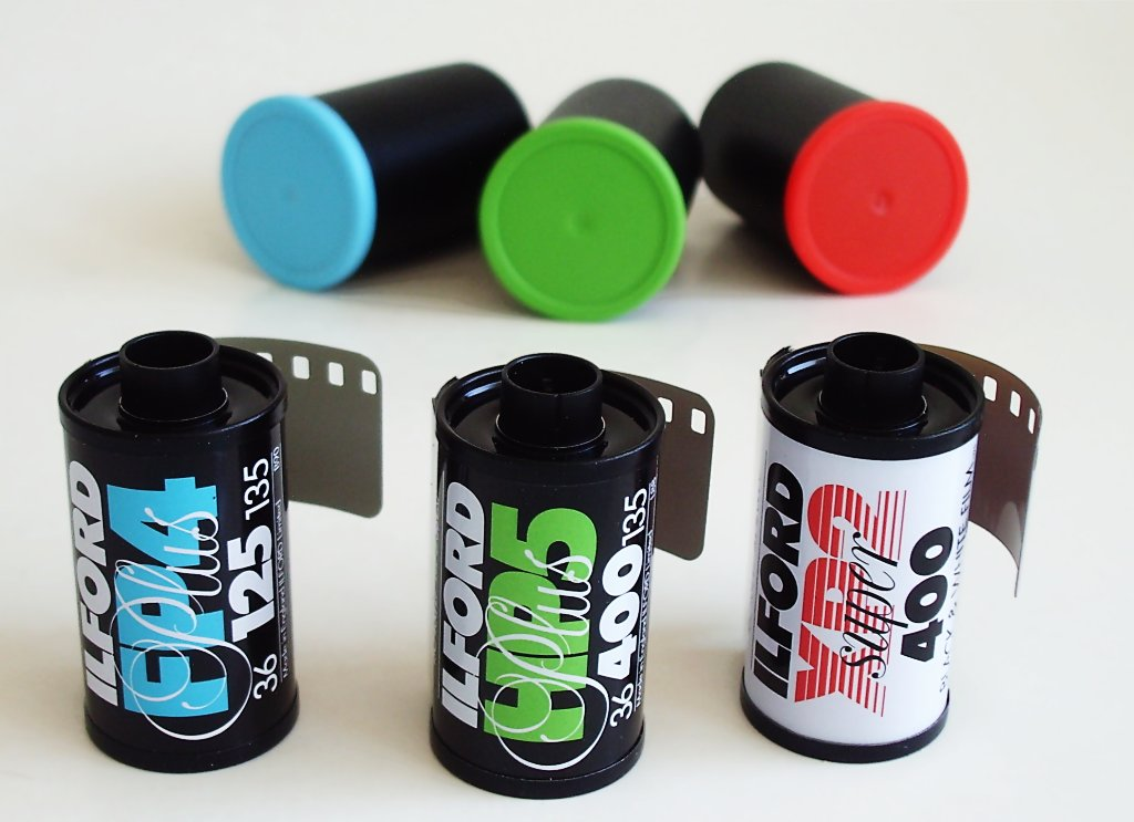 Ilford 35 mm black and white film cartridges: Ilford FP-4 Plus, Ilford HP-5 Plus and Ilford XP-2 Plus